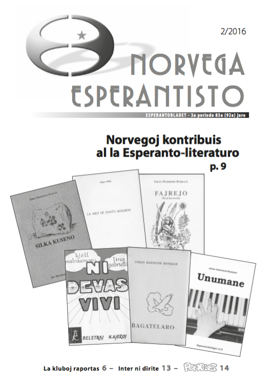 Cover page of “Norvega Esperantisto”, issue 2/2016